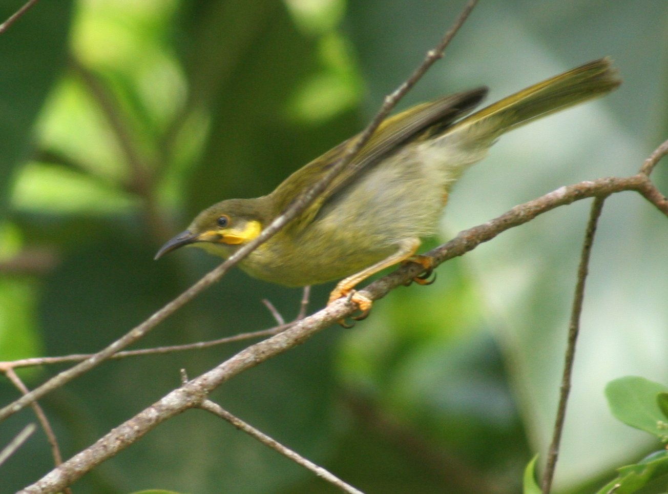 This Wattled Honeyeater is of the Samoan and Tongan subspecies that actually has prominent wattles (unlike the Fijian subspecies). It was a noisy and common species on 'Eua and Fafa, less common on Tongatapu. This bird was photographed in 'Eua, Tonga.